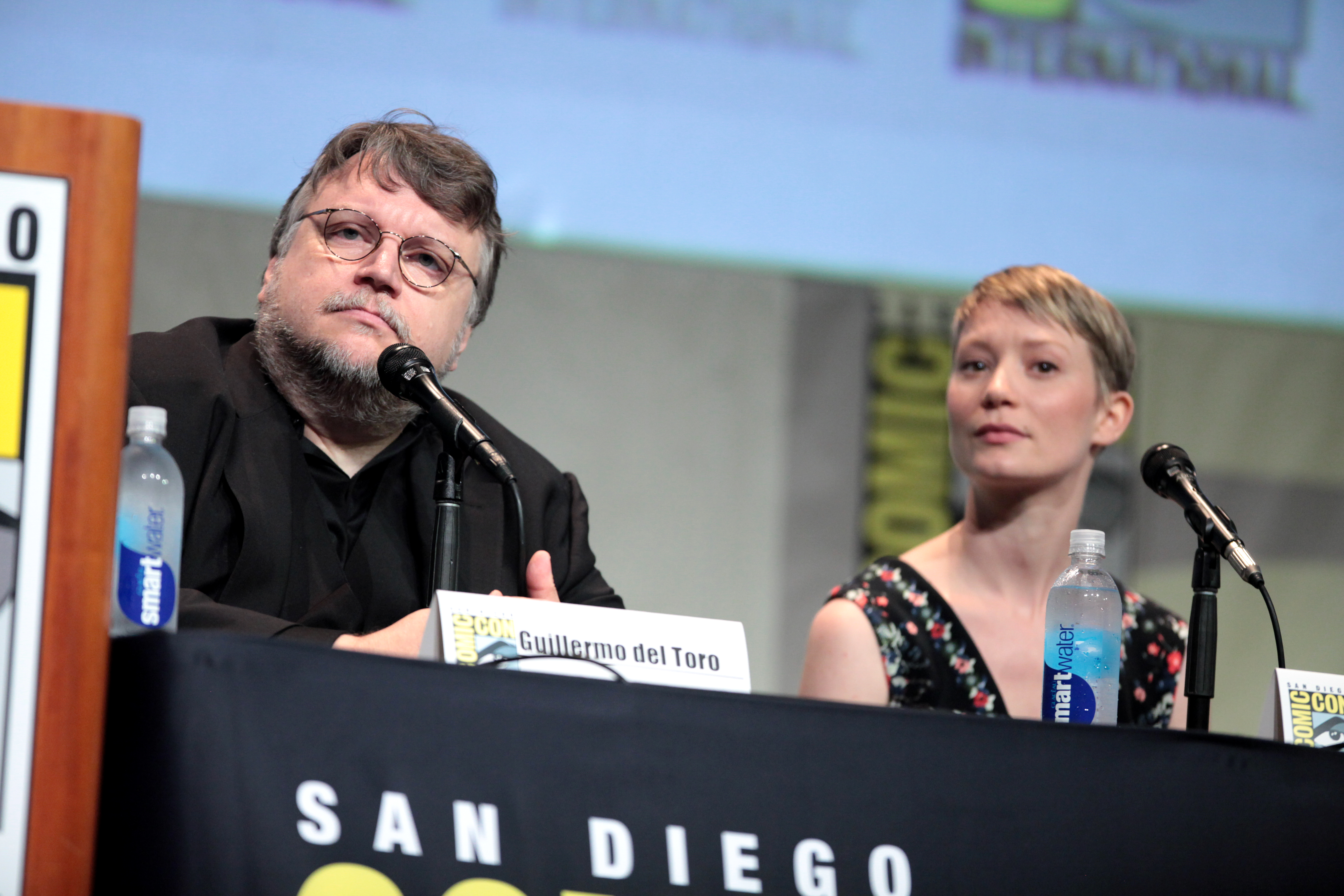 Guillermo del Toro and Mia Wasikowska speaking at the 2015 San Diego Comic Con International, for "Crimson Peak", at the San Diego Convention Center in San Diego, California.